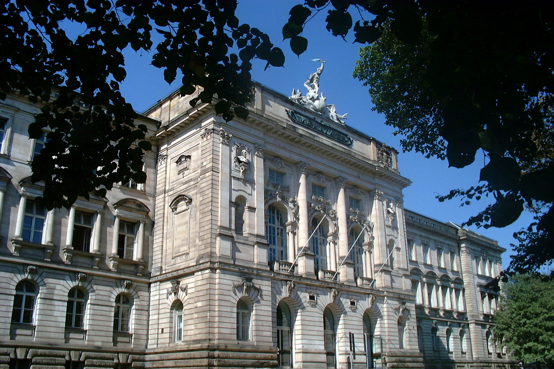 Wuerzburg University, Main Building, built in 1896